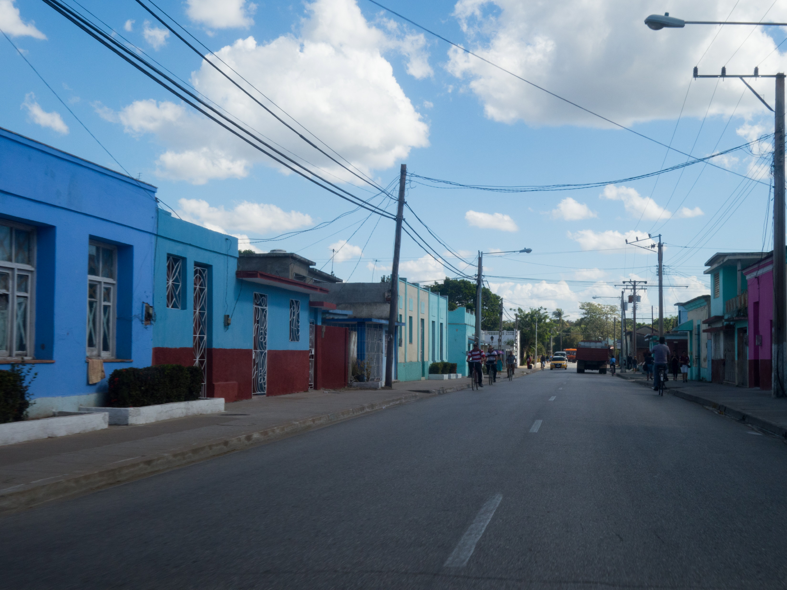 Mainstreet in Guáimaro, Camagüey province, Cuba